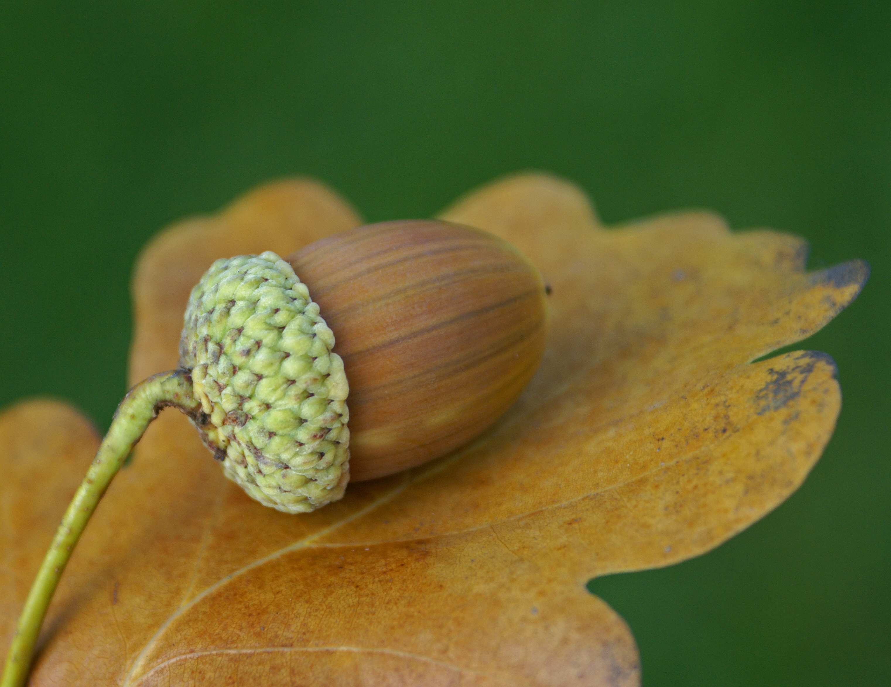 Thanks to diesmali for the right name in English - acorn :)